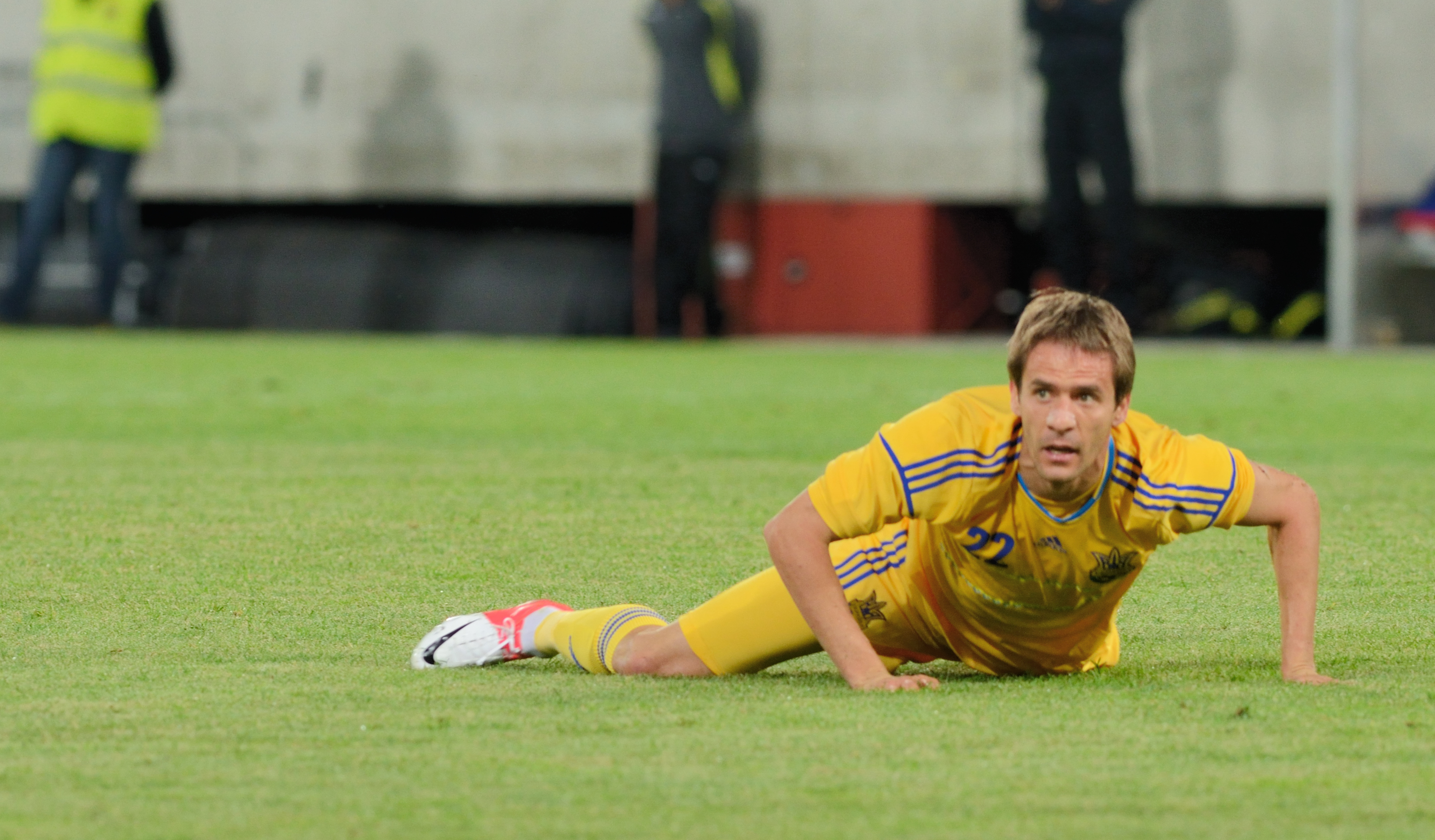 Exhibition game Austria vs. Ukraine at 1st. June 2012